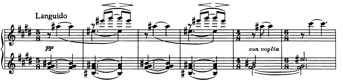 bars 166-171